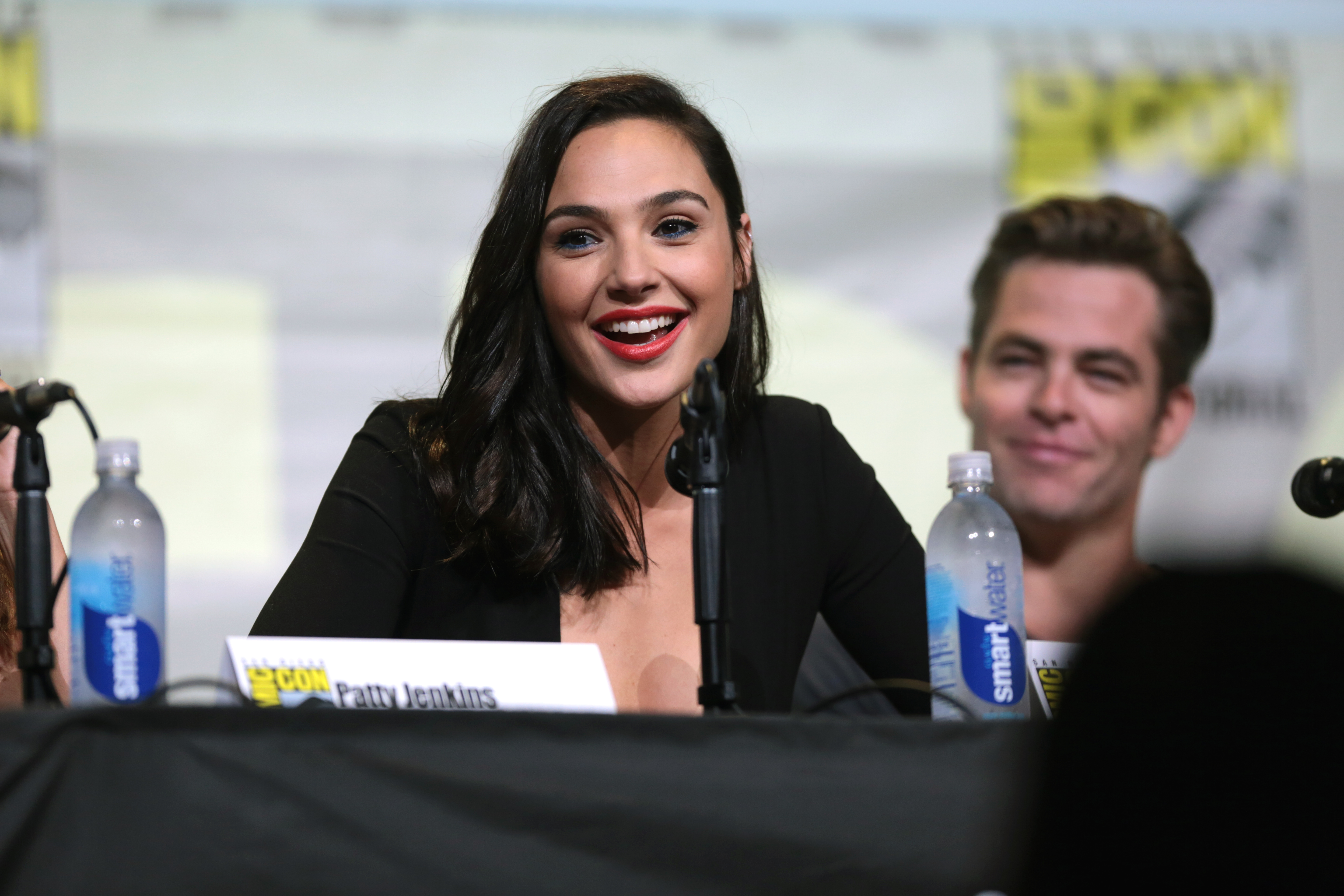 Gal Gadot and Chris Pine speaking at the 2016 San Diego Comic Con International, for "Wonder Woman", at the San Diego Convention Center in San Diego, California.